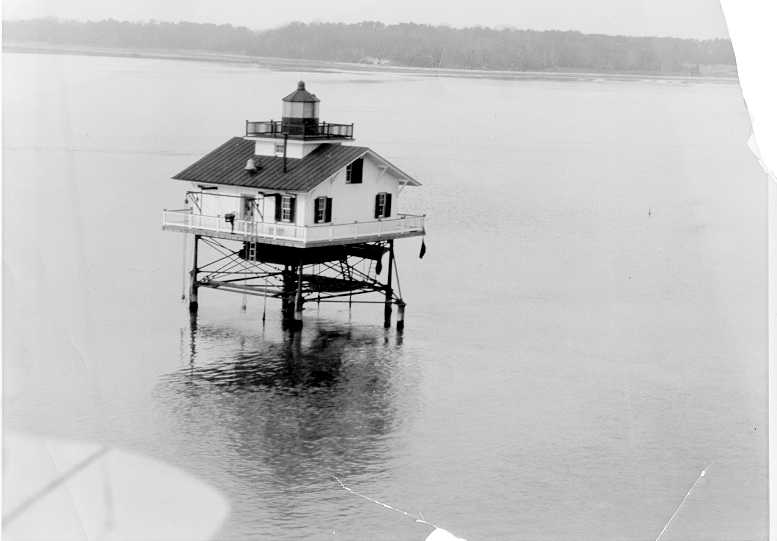 Image taken from Coast Guard website